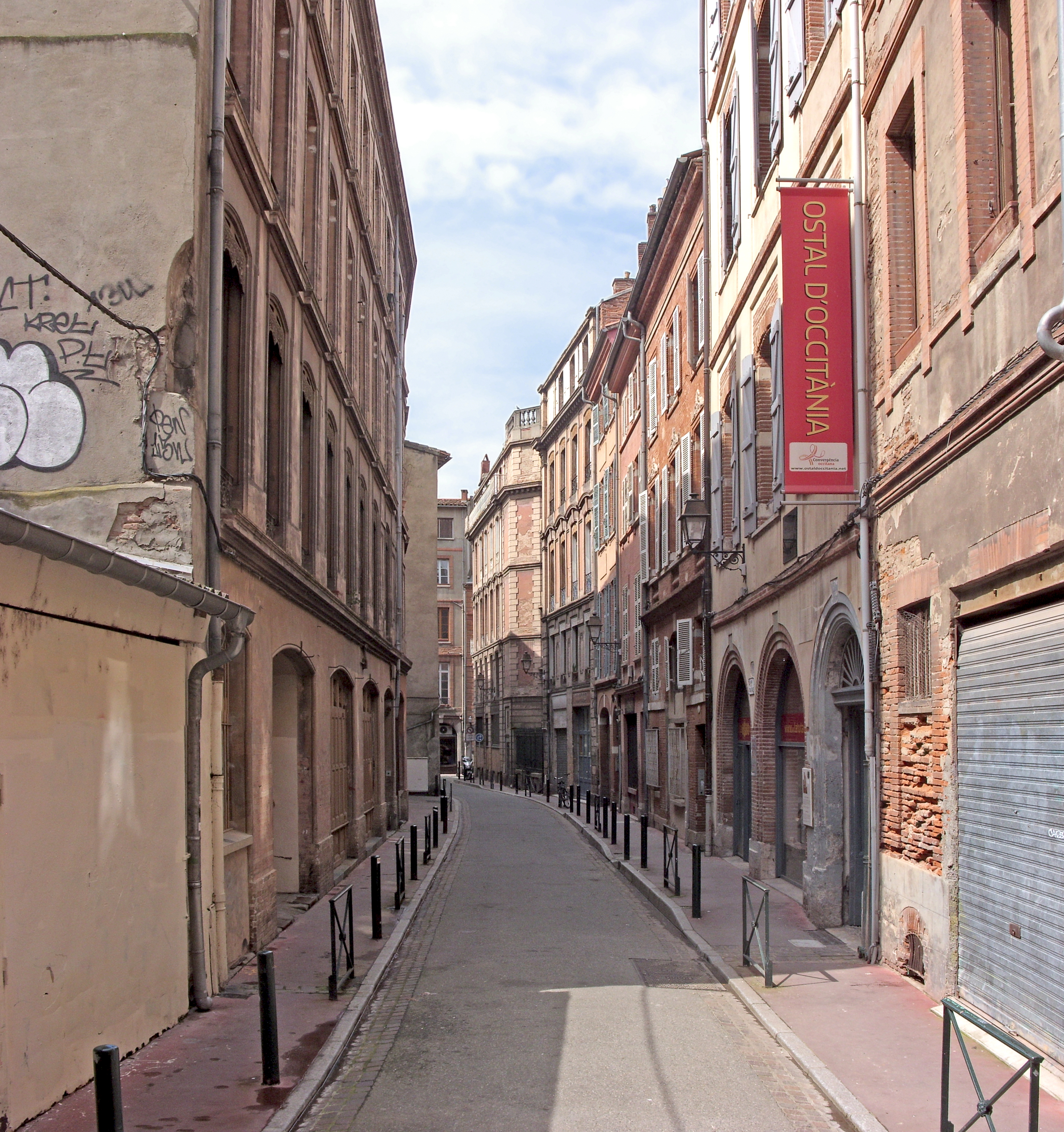 Rue Malcousinat in Toulouse. View from rue des Changes, to the Rue de la Bourse.